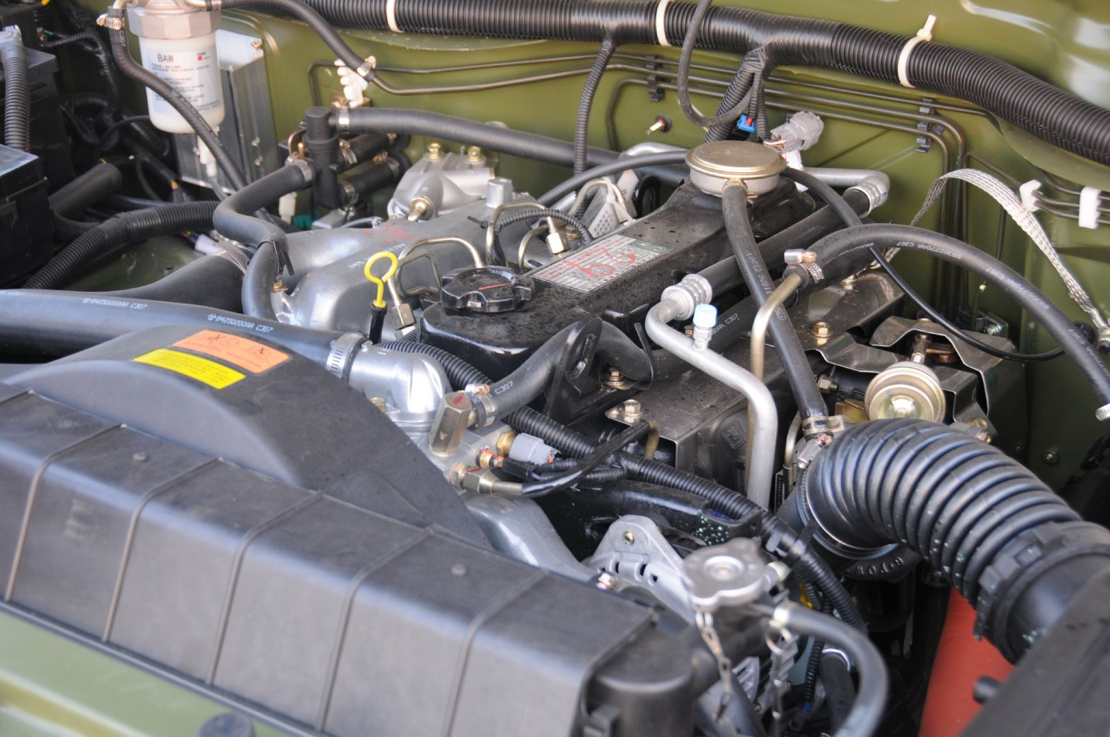 The engine in a Beijing BAW BJ2022JC Warrior. Could be a Foton QD29Ti or a Nissan QD32Ti, they look largely identical.